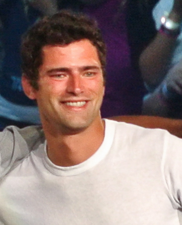 Taylor Swift and special guest during Style